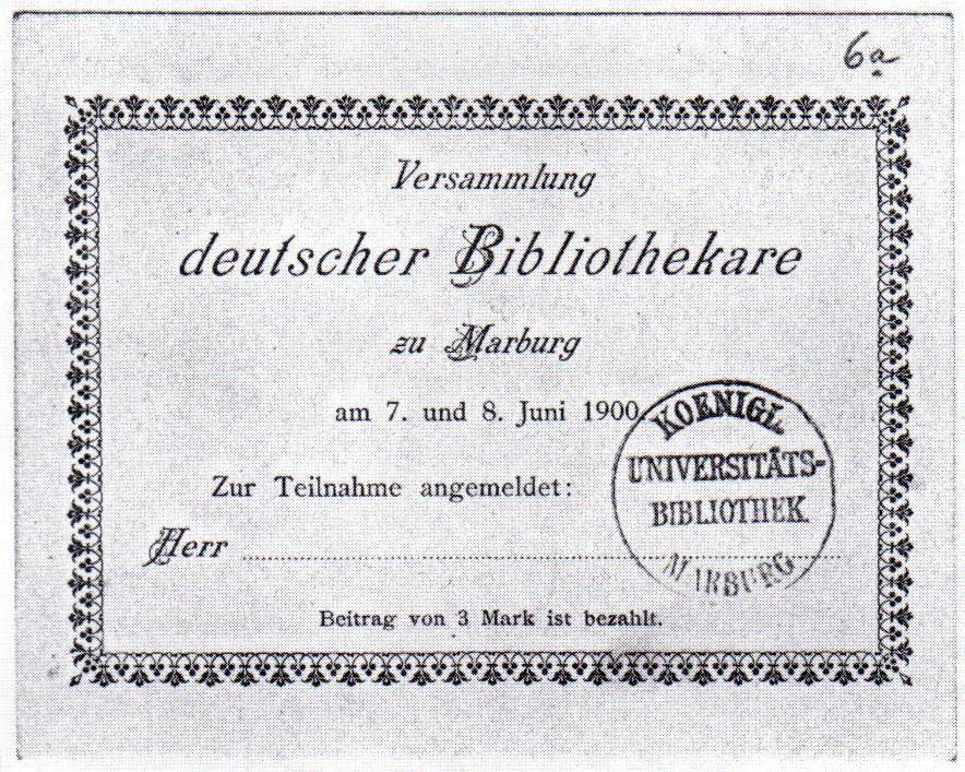 First german library congress 1900, ticket